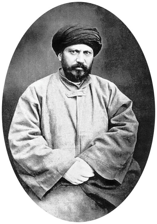 Restored picture Sayyid Dschamāl ad-Dīn al-Afghānī (جمال الدين الافغاني, Ǧamal al-Dīn al-Afġānī); born ~1838, died 1897-03-09